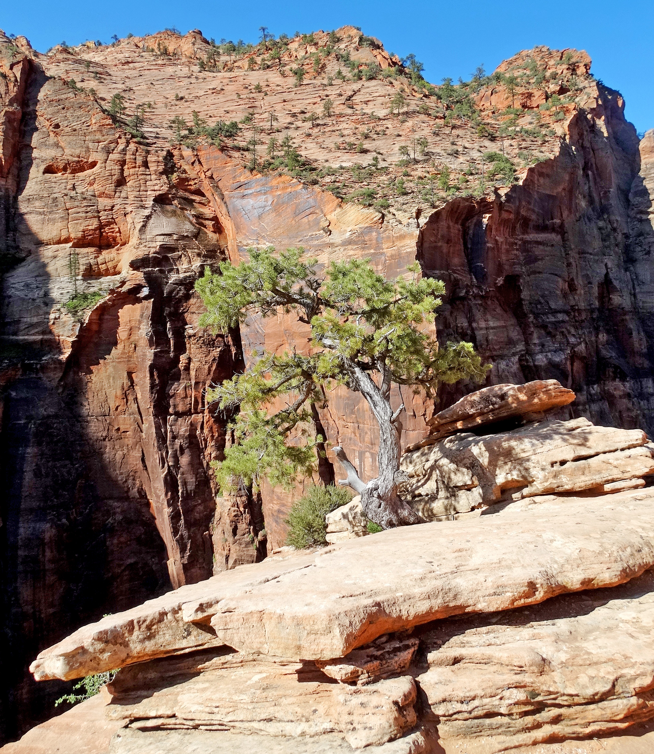 (1 in a multiple picture album) As we hiked in the high country of Zion National Park I was fascinated by these Utah Junipers that hang on to life in the rockiest of soils and through the worst of temperature and moisture fluctuations. There is a life lesson in them.